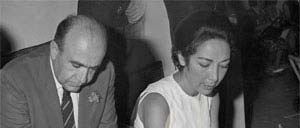 Hoveida and his wife, Leila